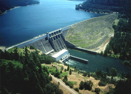 The Lookout Point Dam and Reservoir near Lowell, Oregon.